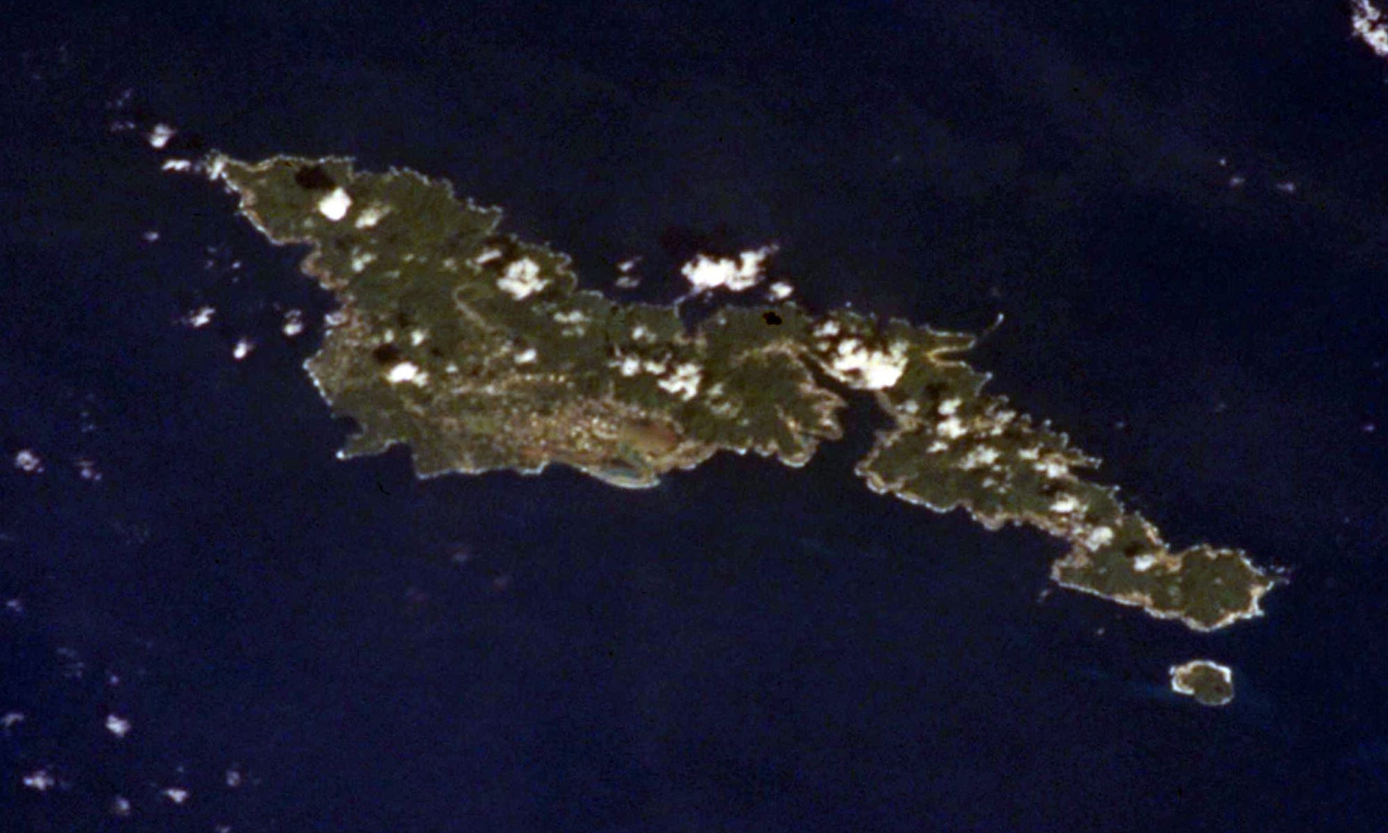 Tutuila from Space Shuttle NASA Space Shuttle image ISS002-701-263, 2001 (